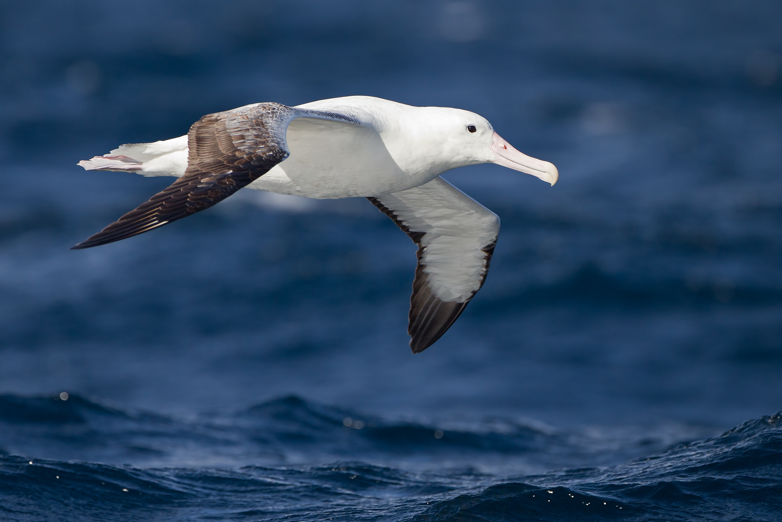 Southern Royal Albatross (Diomedea epomophora) in flight, East of the Tasman Peninsula, Tasmania, Australia